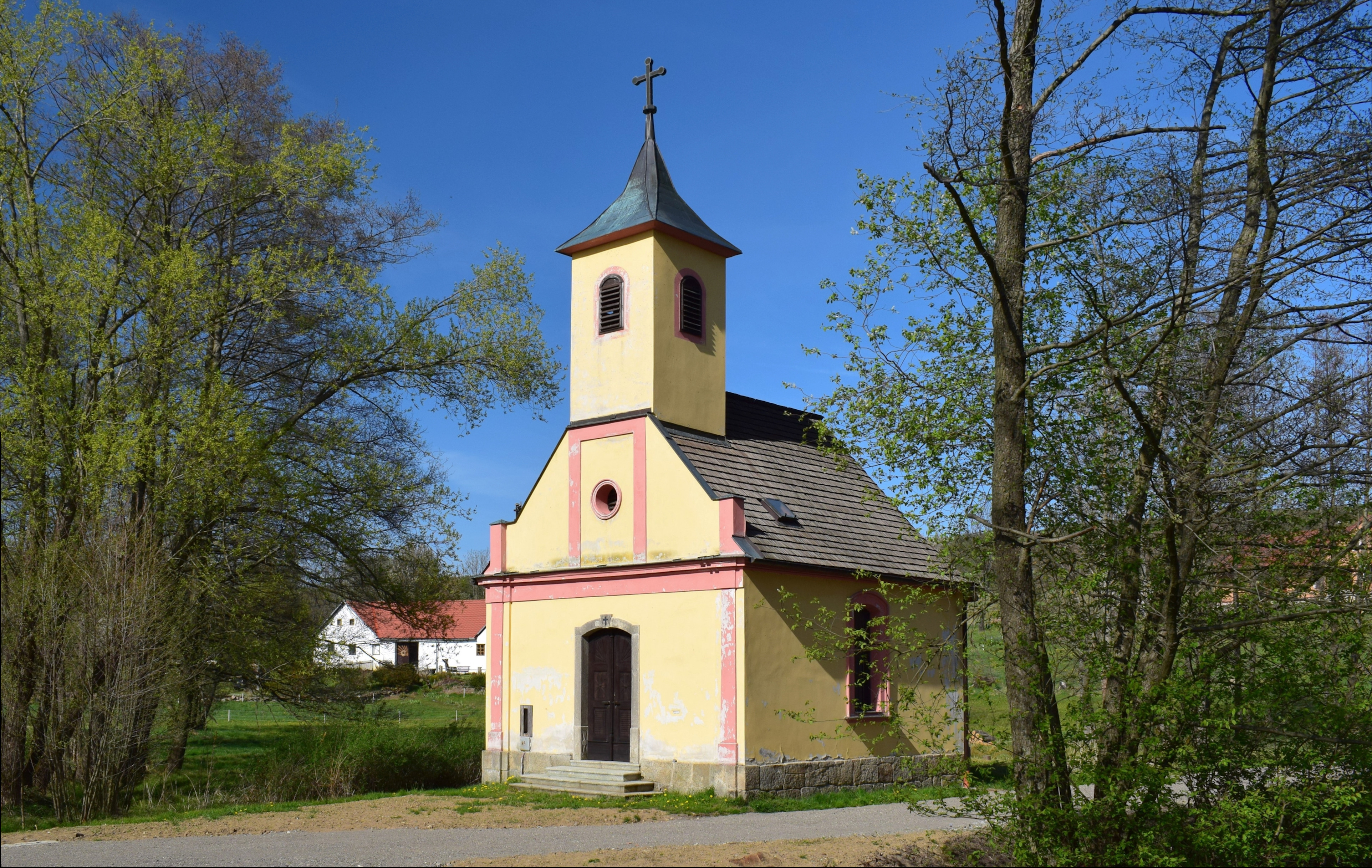 Chapel in Šejby